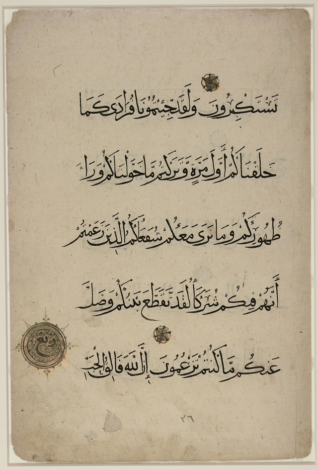 This calligraphic fragment includes verses 93-95 of the 6th chapter of the Qur'an entitled al-An'am (The Cattle), in Muhaqqaq script.